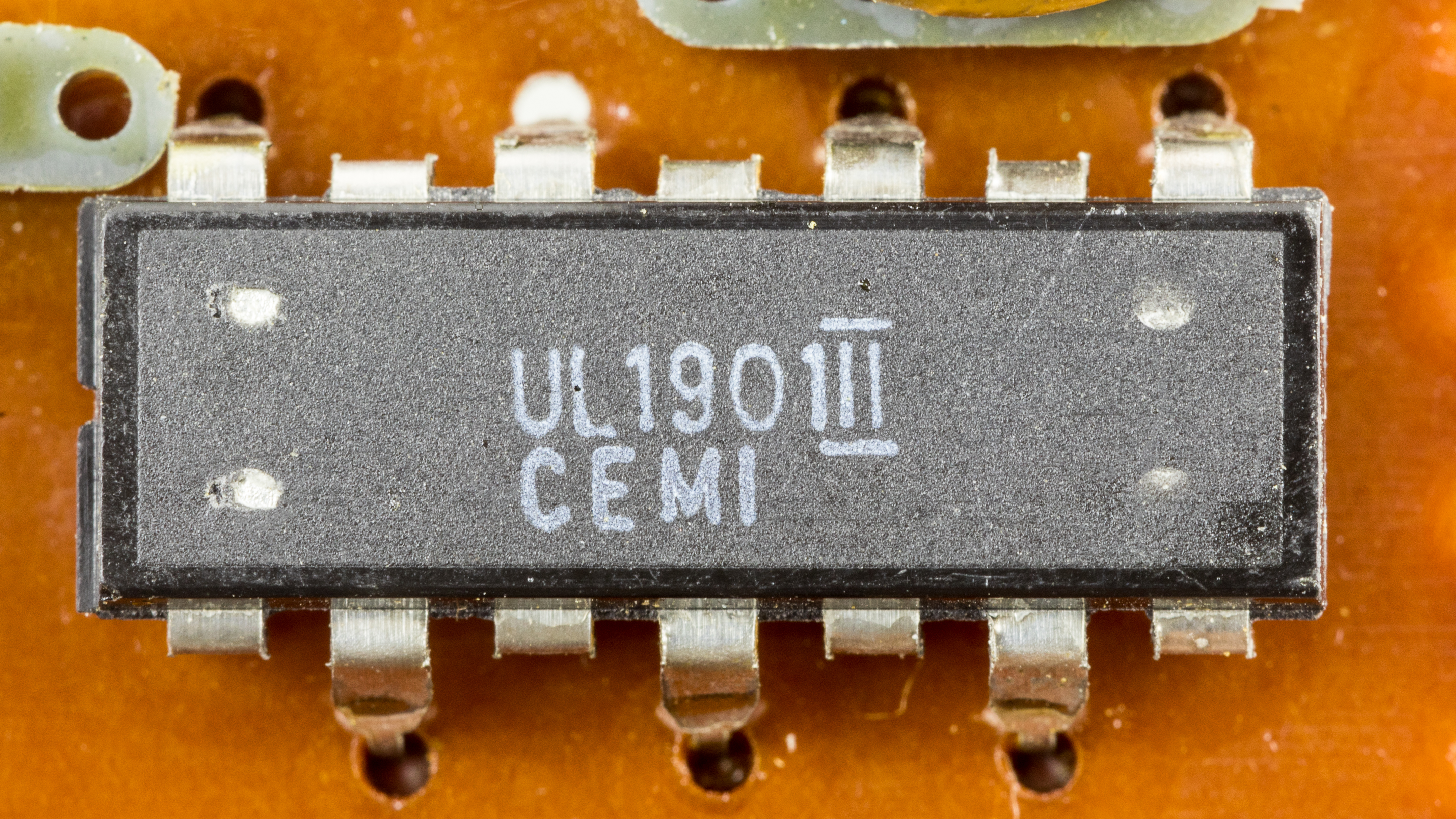 Bruns Monocord-6020 - subboard 1 - CEMI UL1901